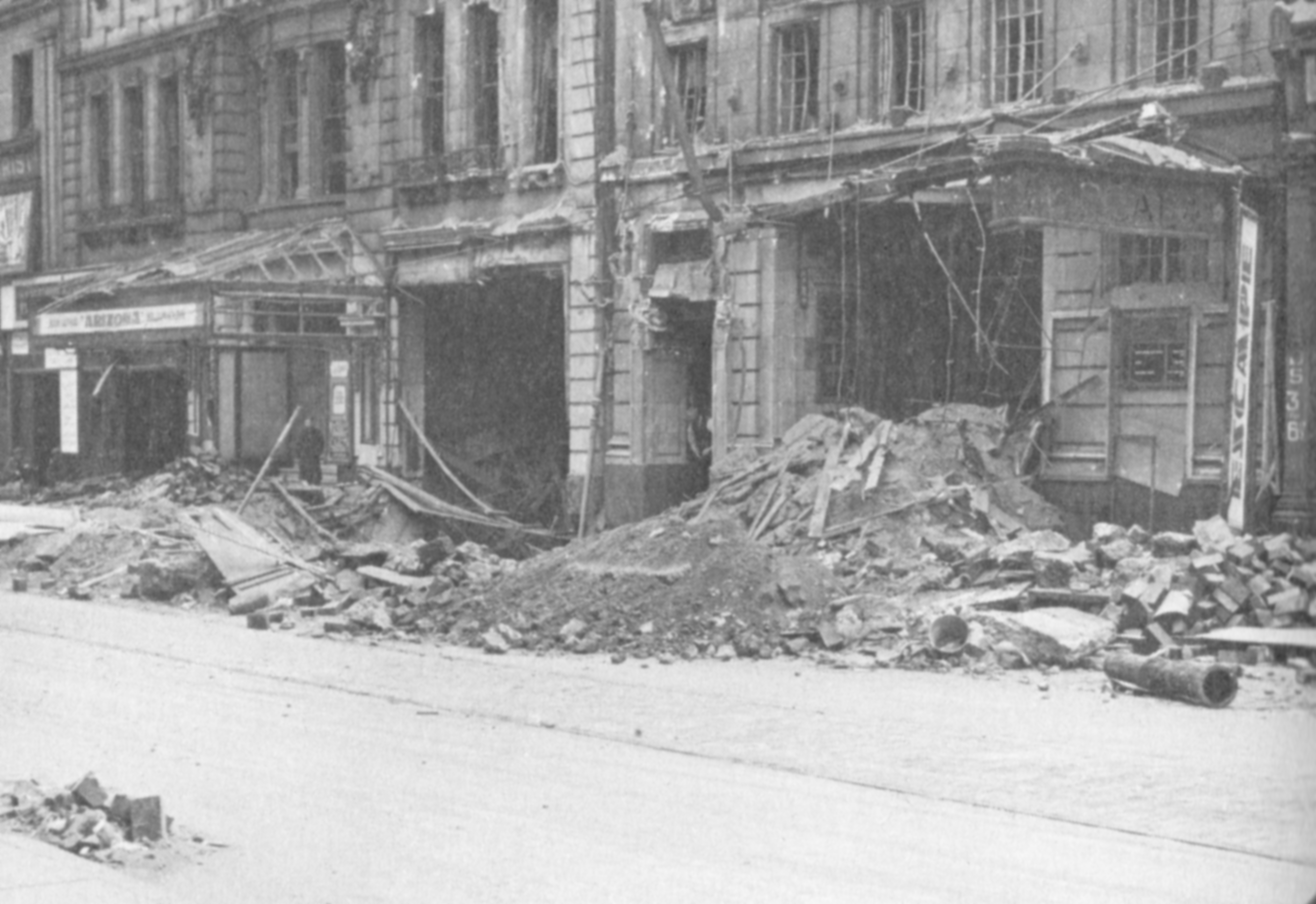 Damage done to two of Lime Street's cinemas on the night of the 3rd/4th May 1941